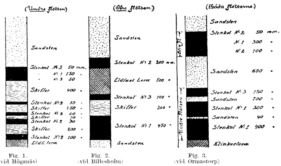 Coal seams in Scania, Sweden